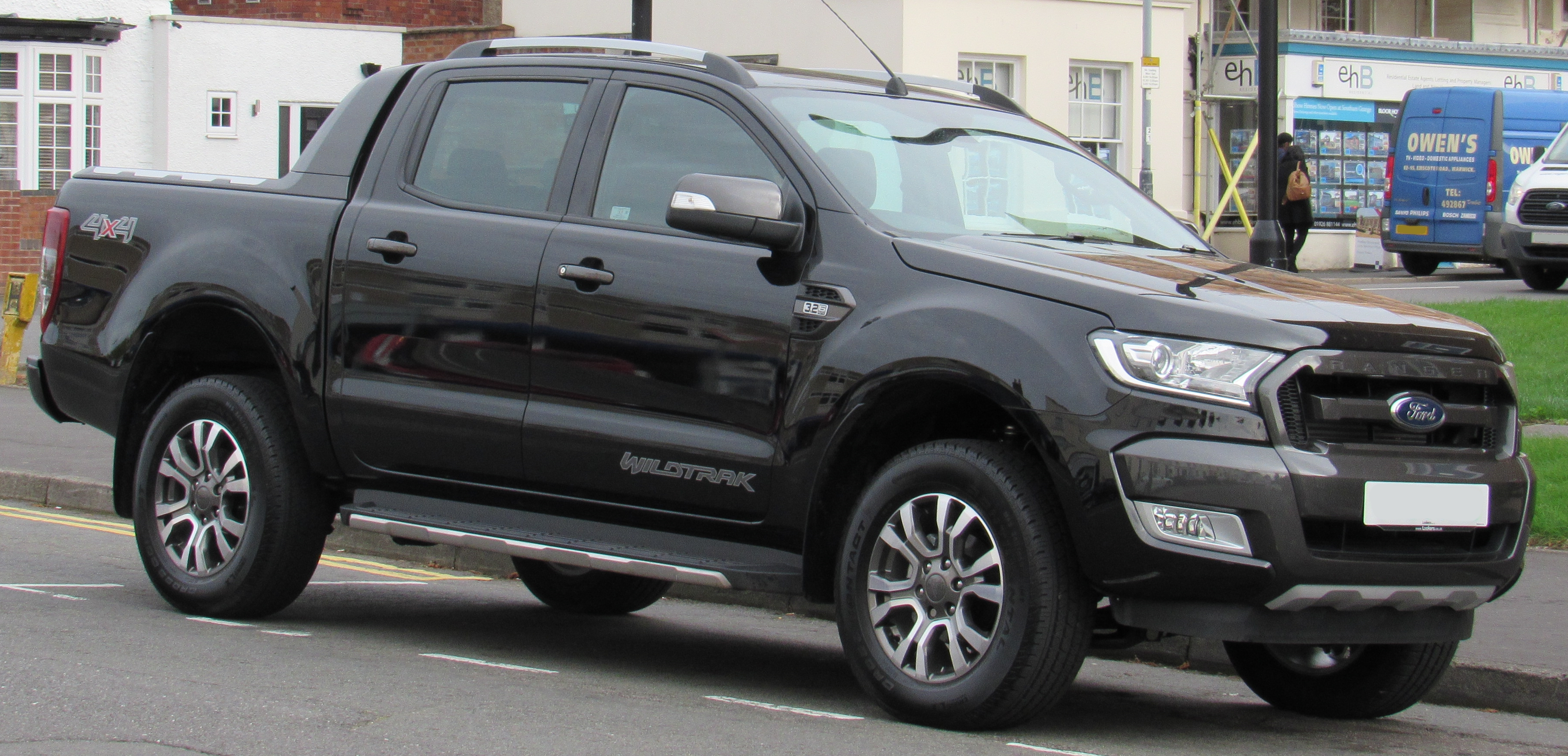 2017 Ford Ranger Wildtrak 4X4 facelift 3.2 Front